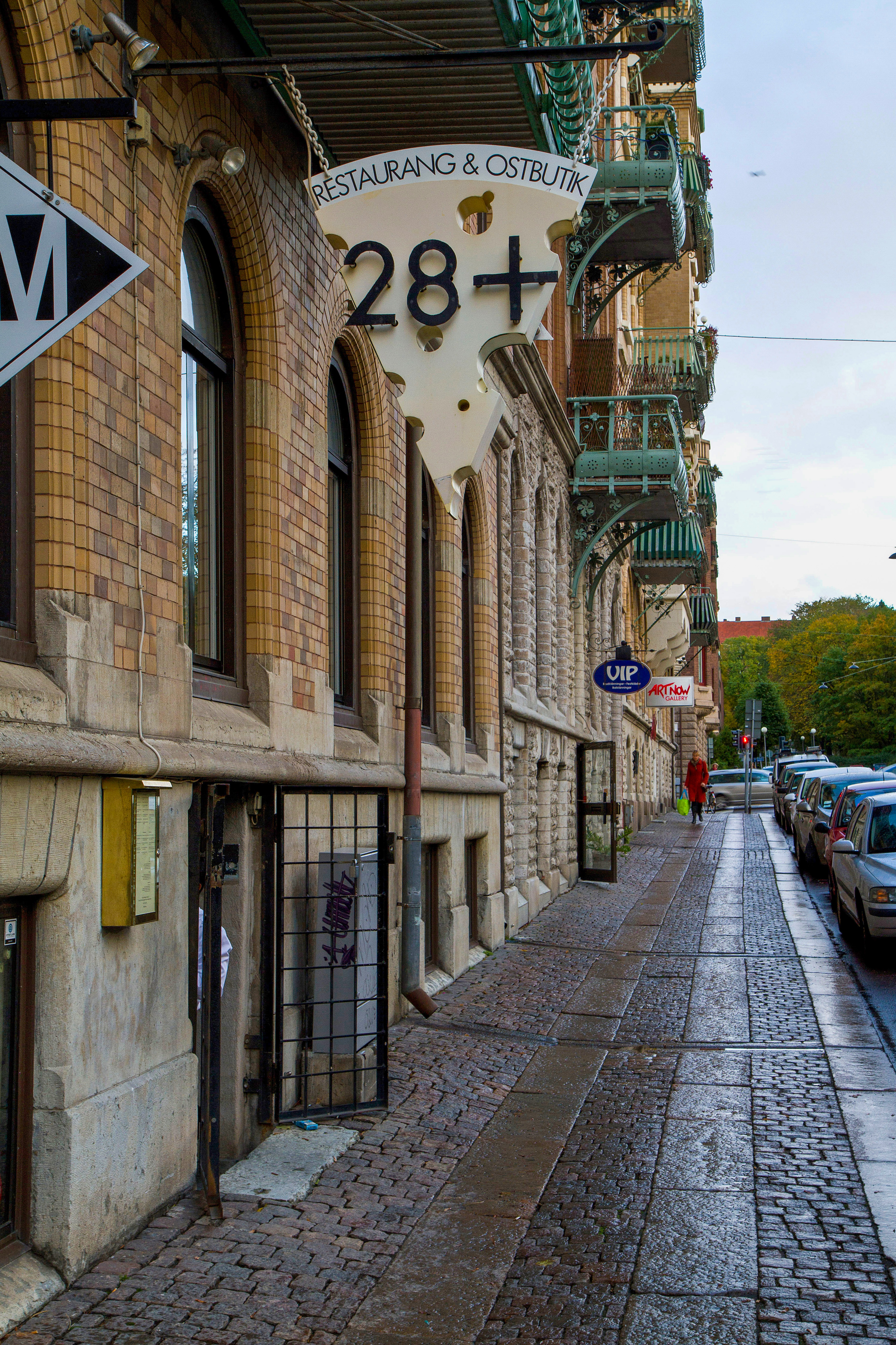 Restaurant 28+, Gothenburg